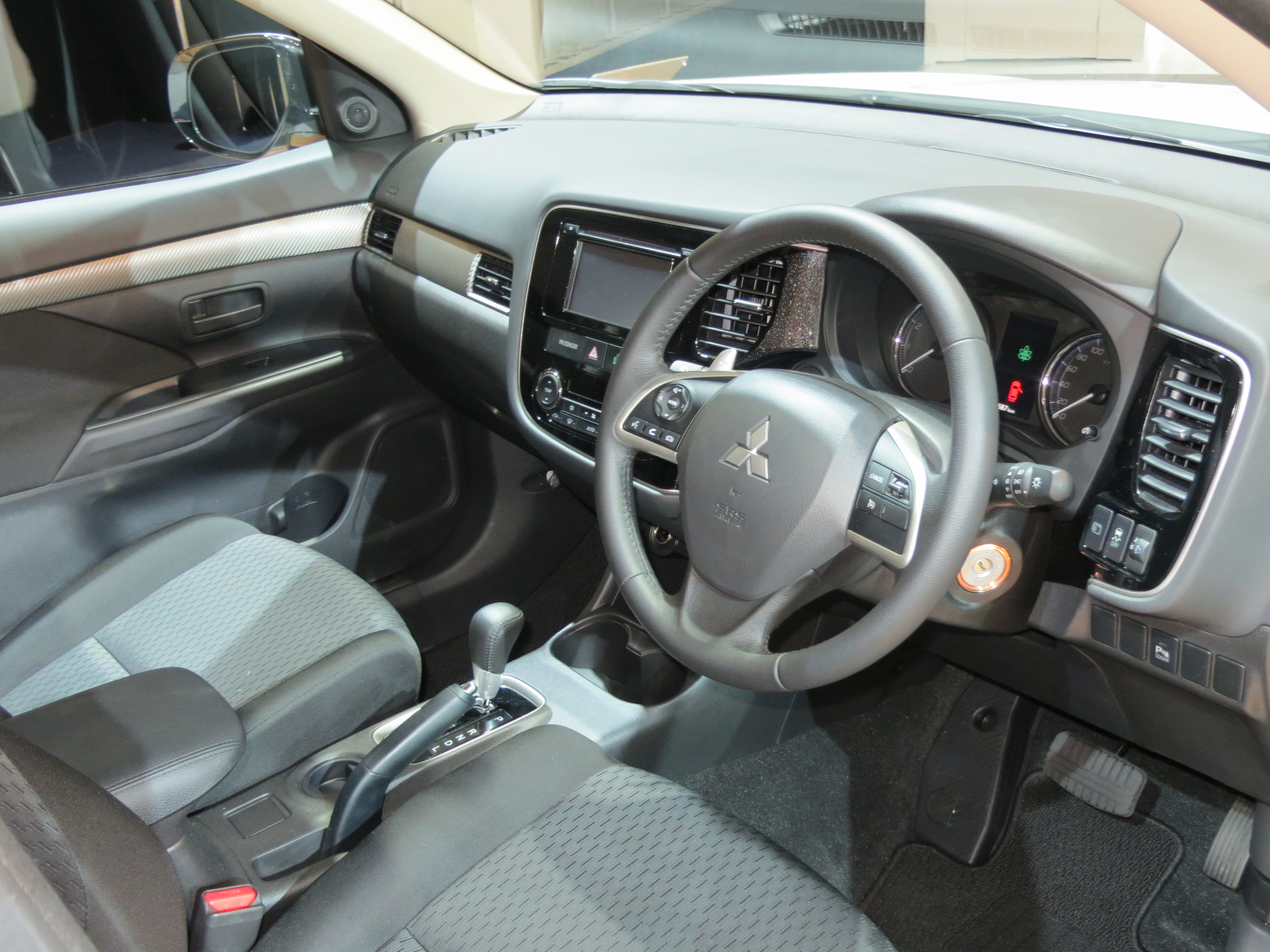 2012 Mitsubishi Outlander (ZJ MY13) LS wagon. Photographed at the 2012 Australian International Motor Show, Sydney, New South Wales, Australia.